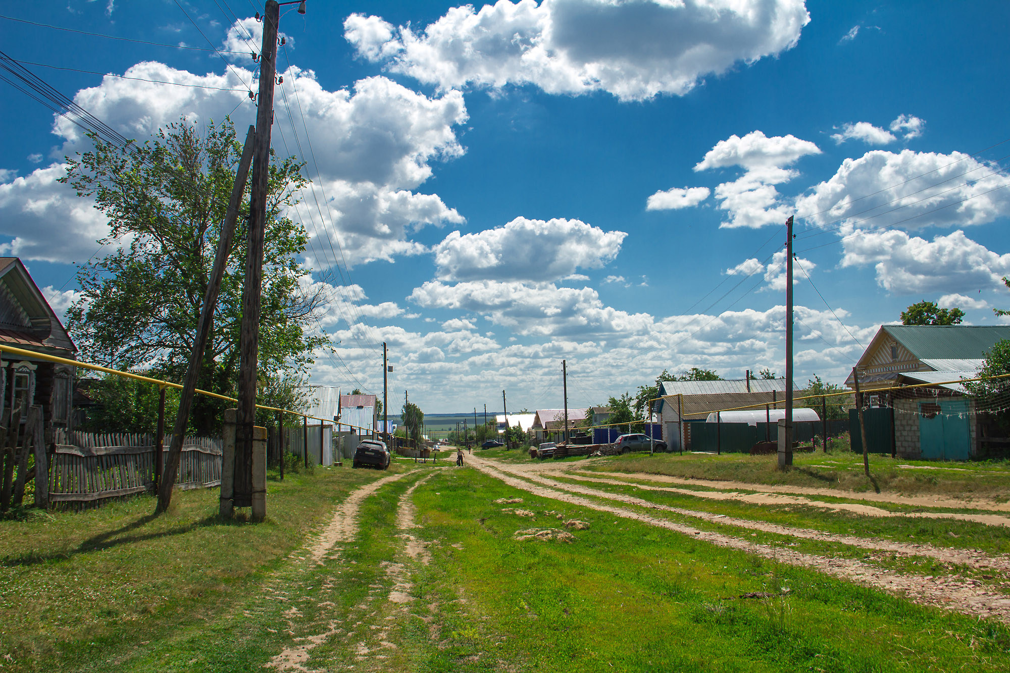 Yanmurzino Village, Krasnoarmeysky District, Chuvashia, Russia Чӑвашла: Янмурçин ялӗ, Трак Ен